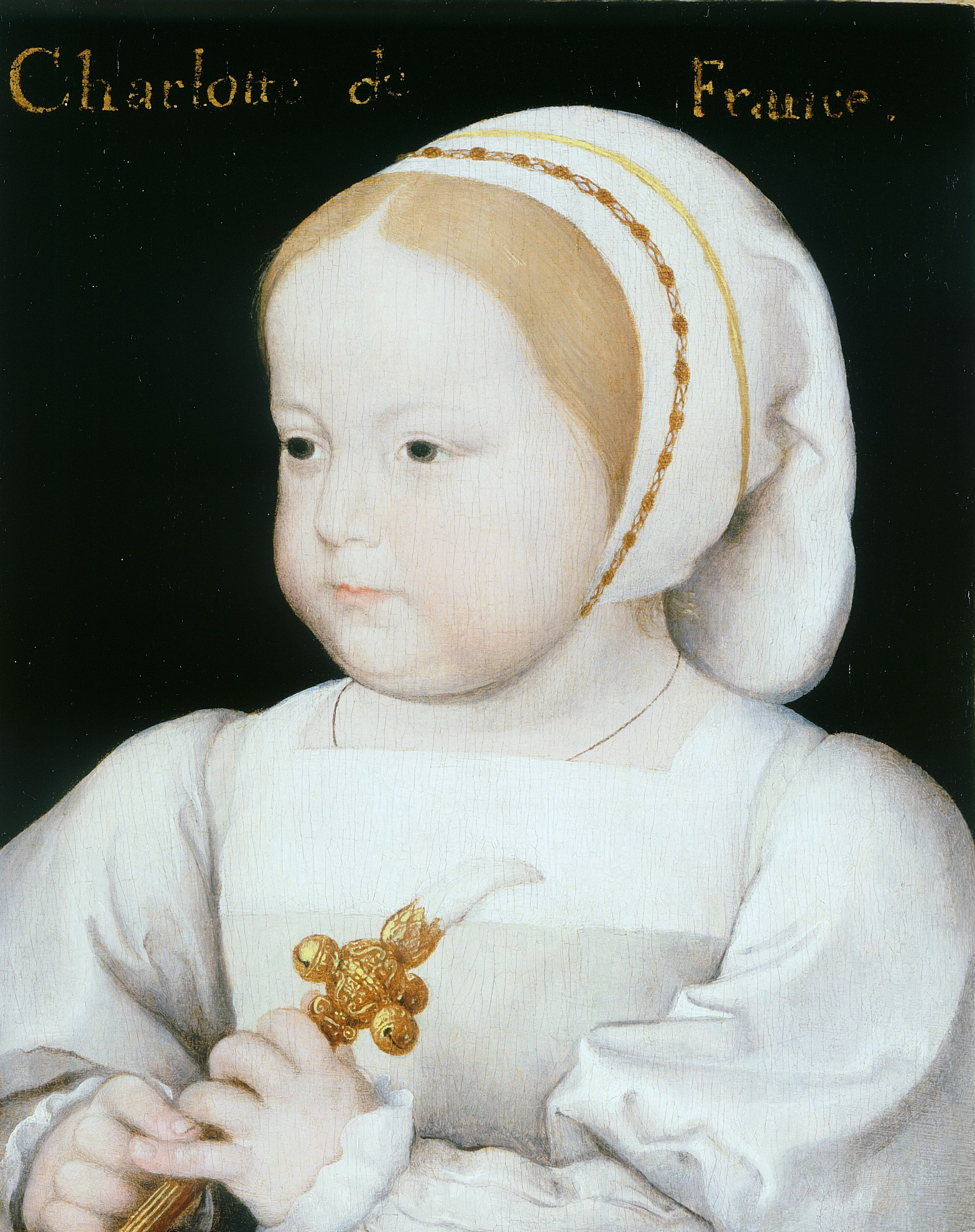 Madeleine of France (1520 - 1537), 3rd Daughter of François I (1494 - 1537) and Claude of France (1499 - 1524), misidentified in a later inscription as Charlotte of France.